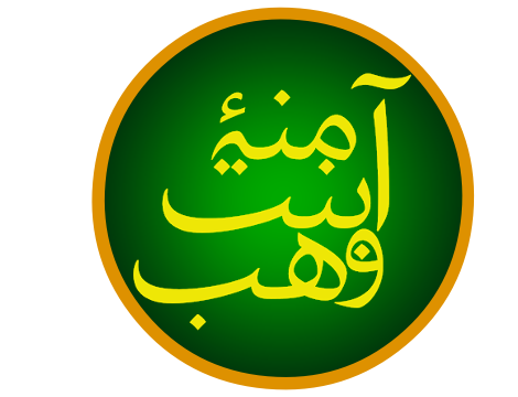 Aminah Syeddah.png